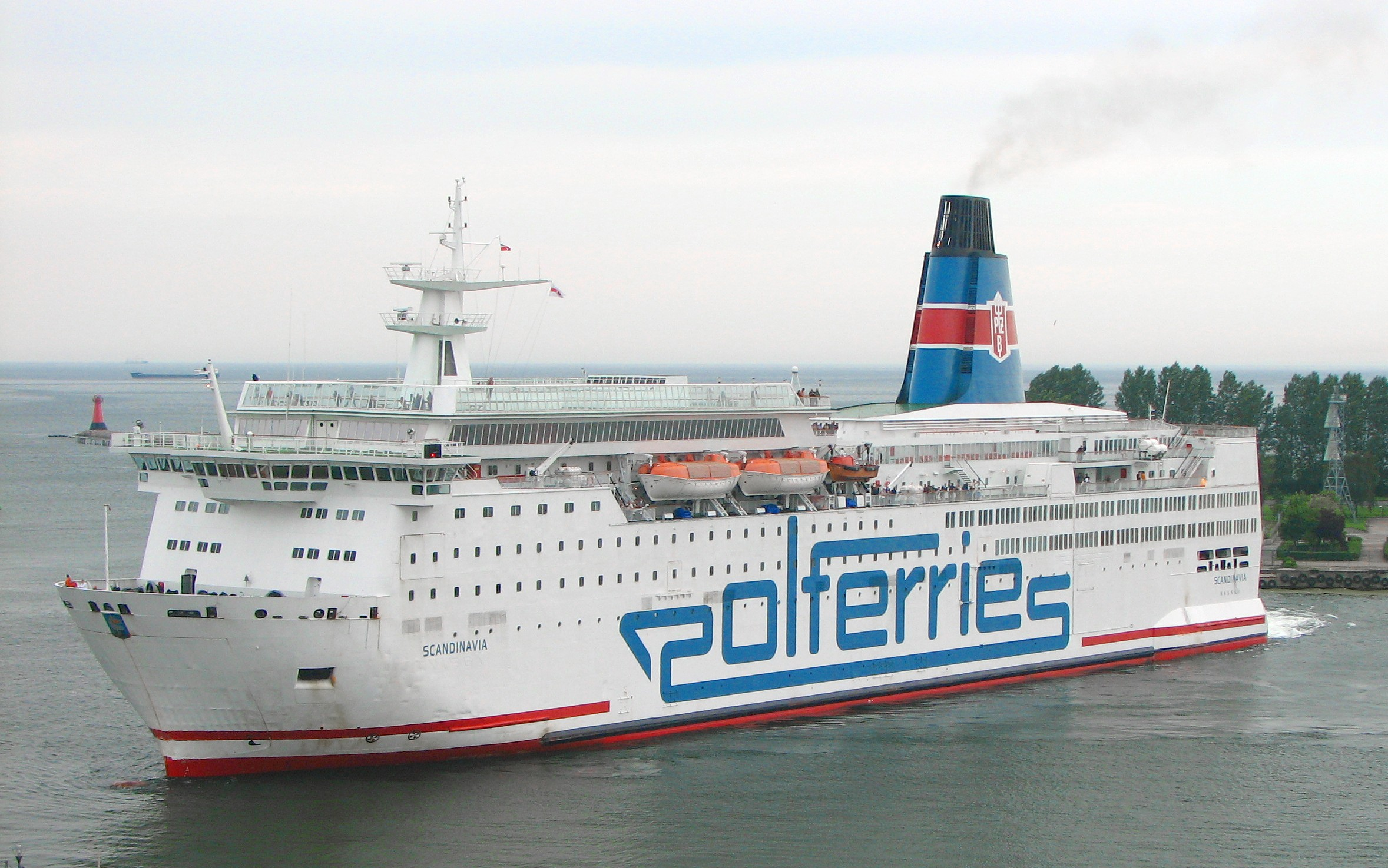 Scandinavia in Gdansk, Poland